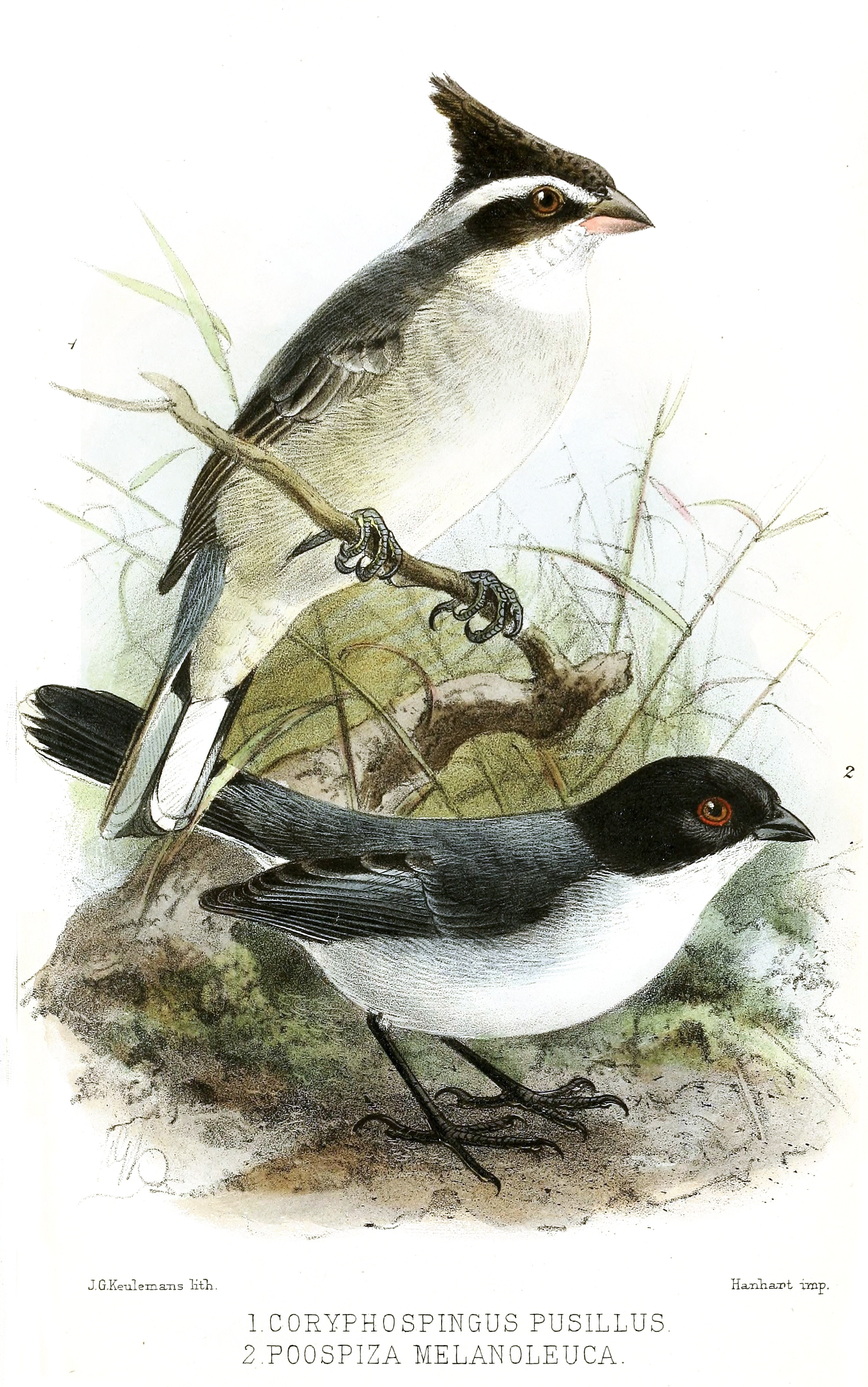 « Coryphospingus pusillus » = Lophospingus pusillus (Black-crested Finch) « Poospiza melanoleuca » = Poospiza melanoleuca (Black-capped Warbling Finch)